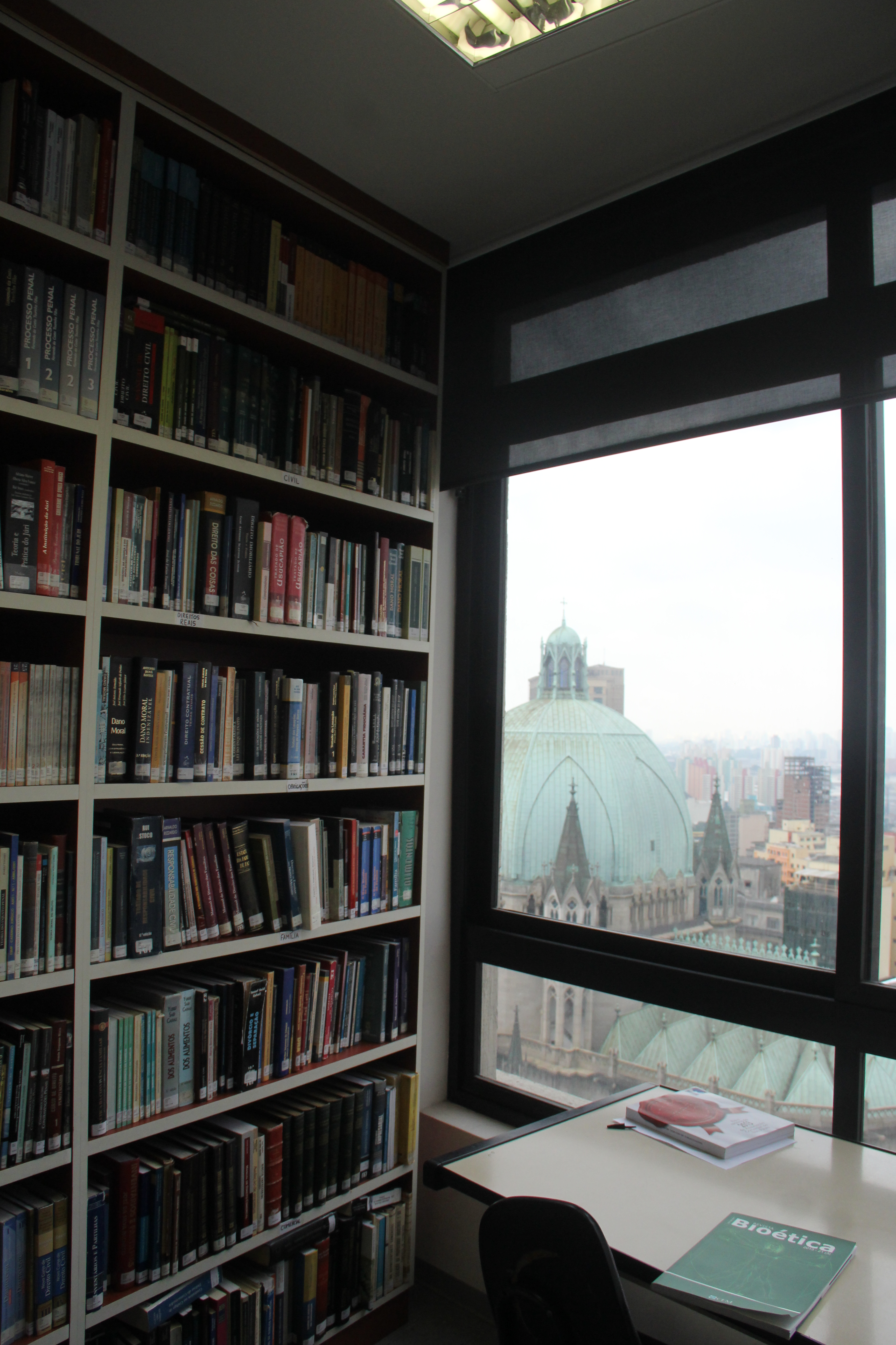 vista da bilbioteca - dia